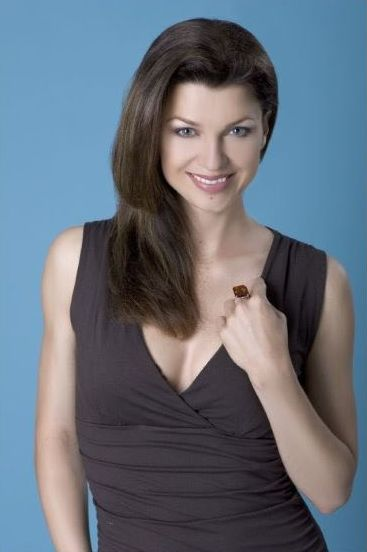 Elen Černa